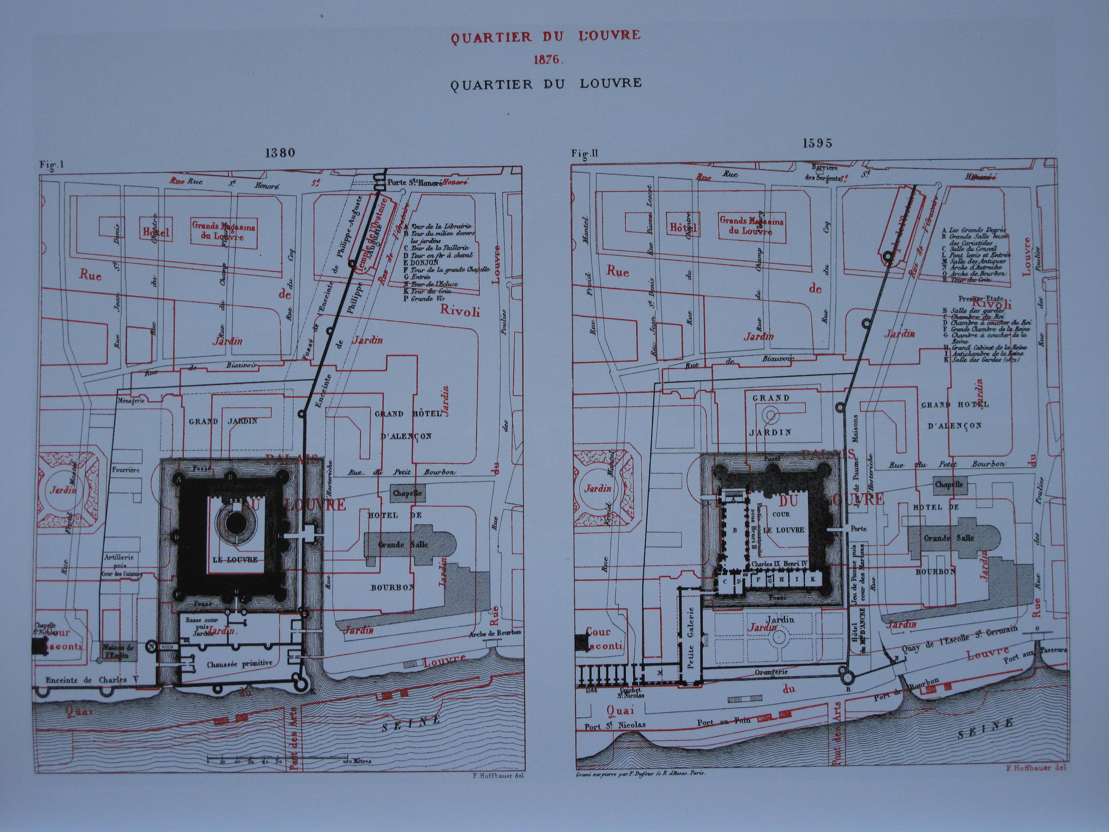 The quartier du Louvre (Paris, France). On the left, the maps of 1380 and 1876. On the right, the maps of 1595 and 1876.